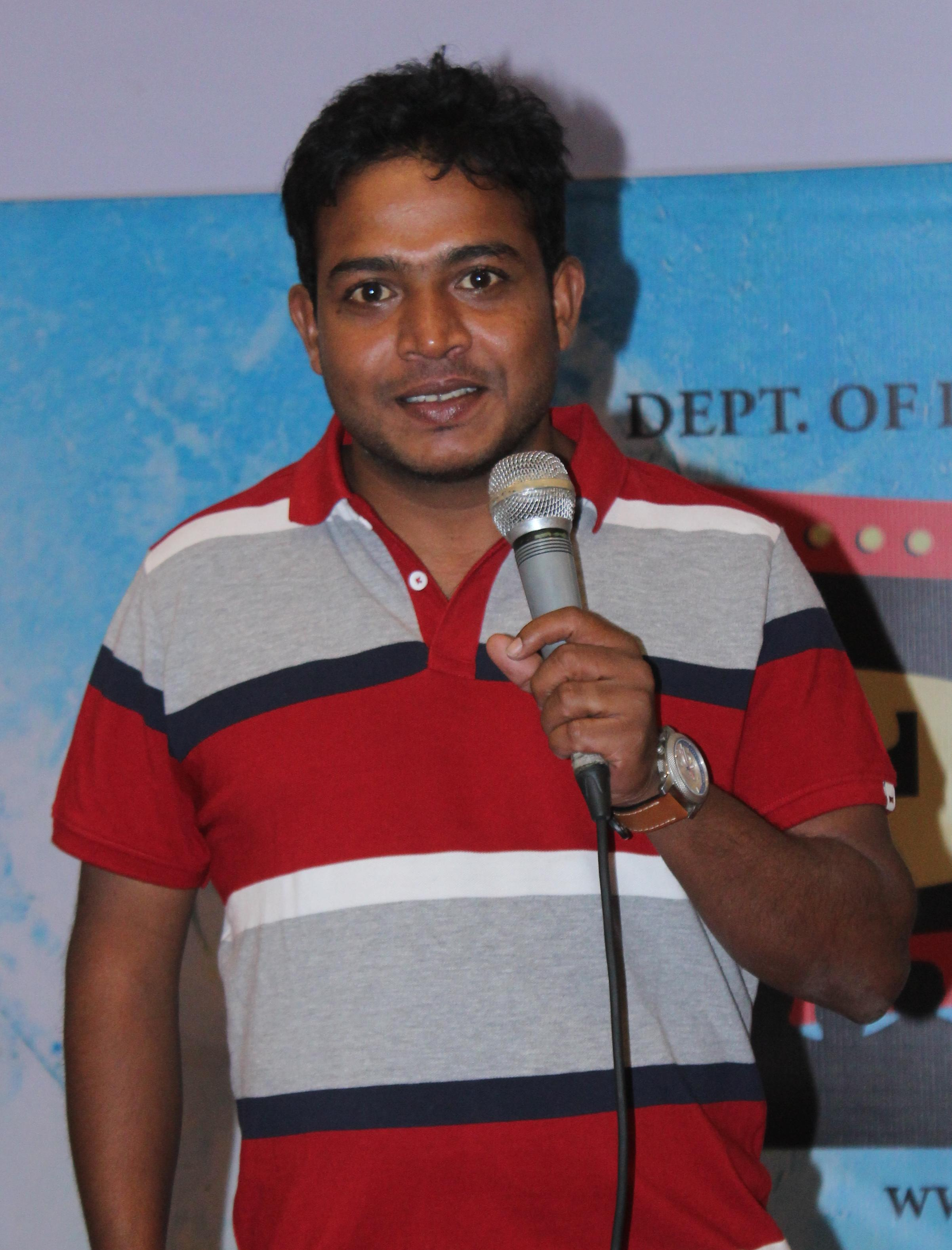 Sagar k Chandra in Cinivaram, Ravindra Bharathi, Hyderabad